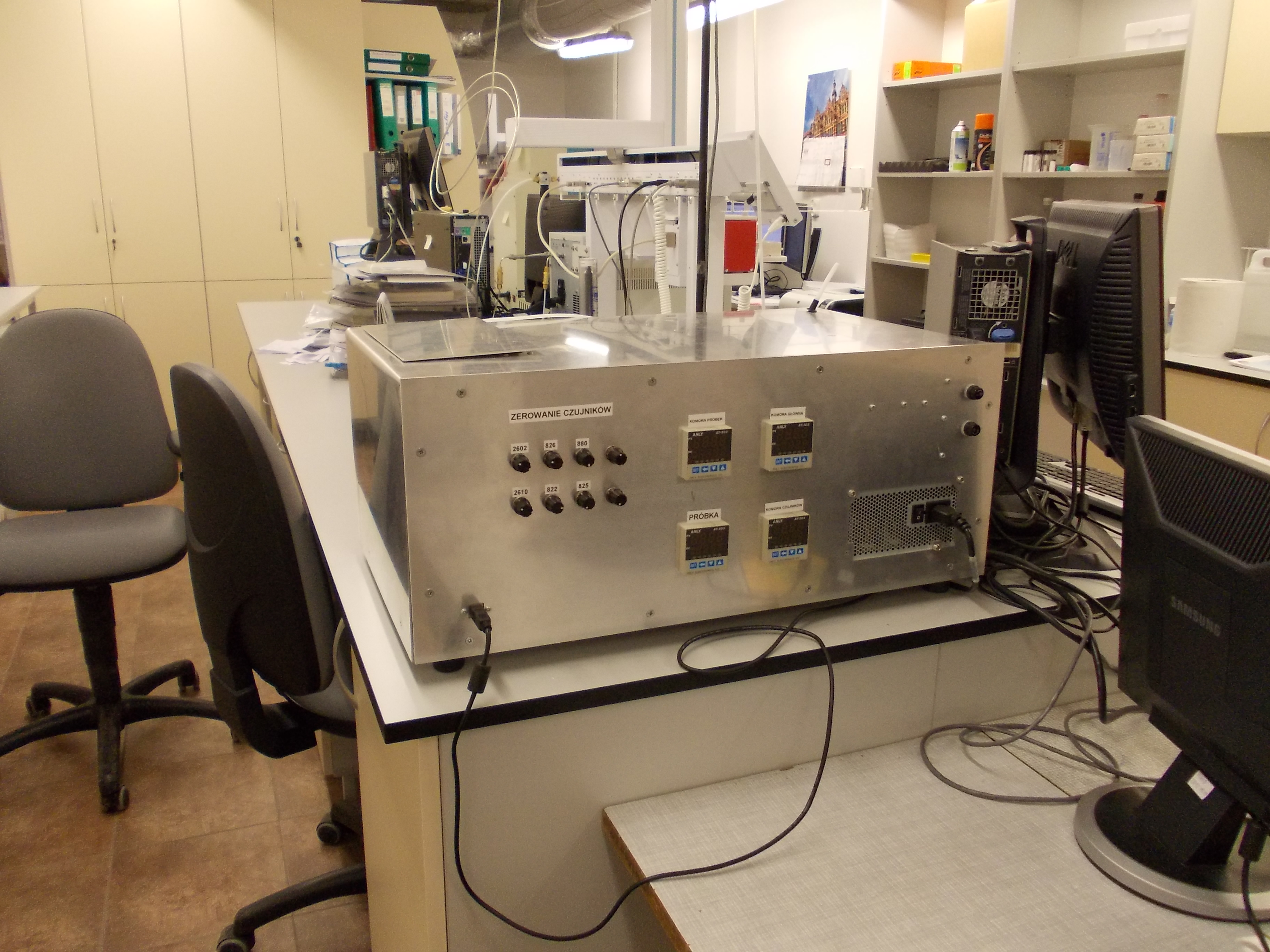 An electronic nose prototype. Analytical Chemistry Department, Chemical Faculty, Gdansk University of Technology.